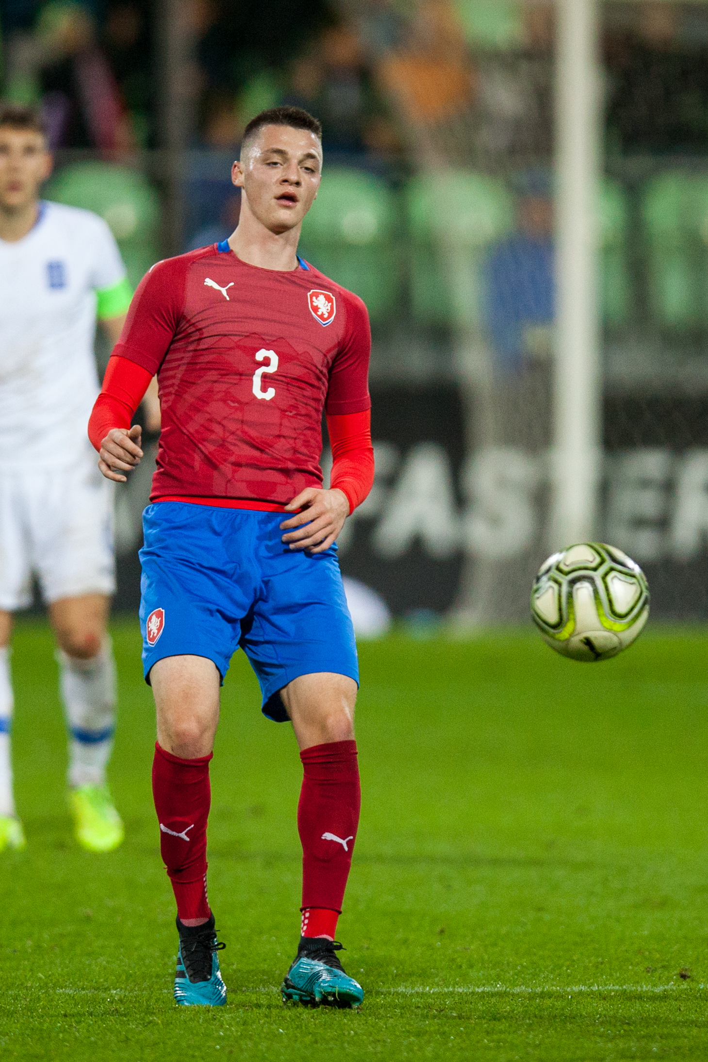 Dimitris Nikolaou in an internatinoal association football match of European Under-21 Championship Qualifying Round between the Czech Republic and Greece, Městský stadion Karviná, Karviná District, Moravian-Silesian Region, Czechia Personality rights warningAlthough this work is freely licensed or in the public domain, the person(s) shown may have rights that legally restrict certain re-uses unless those depicted consent to such uses. In these cases, a model release or other evidence of consent could protect you from infringement claims.